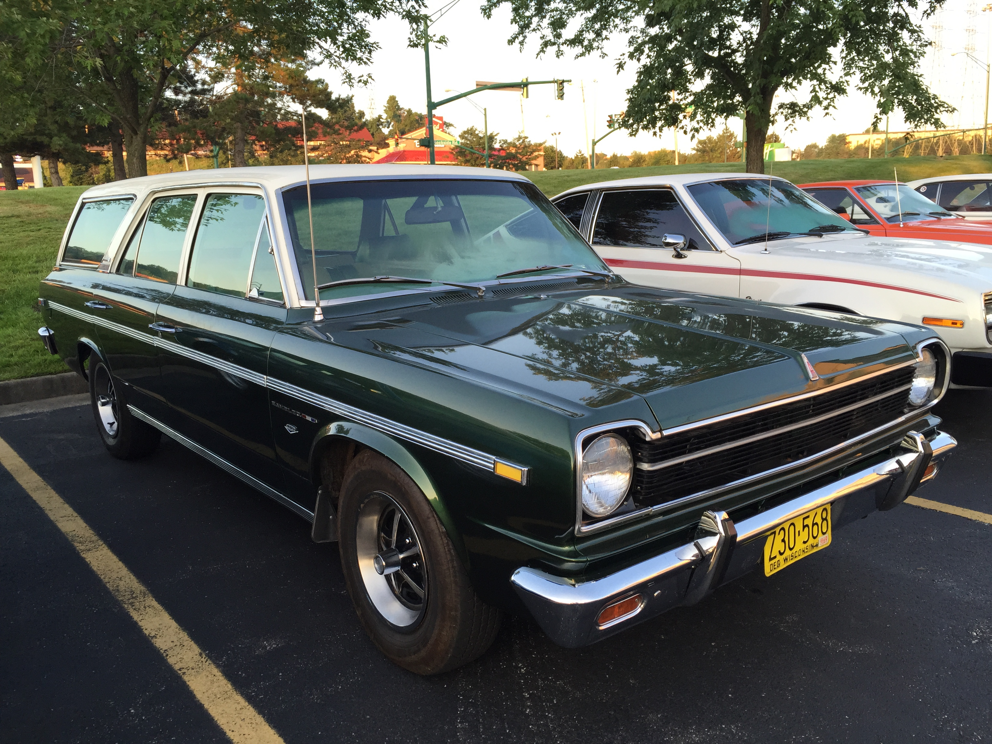 1969 Rambler 440 series station wagon built by American Motors Corporation (AMC). A compact-sized car on a 106 in (2,692 mm) wheelbase equipped with AMC's 290 cu in (4.8 L) "Typhoon" V8 engine. Picture taken during the American Motors Owners Association (AMO) annual convention that was held July 2015 near Cleveland, Ohio.